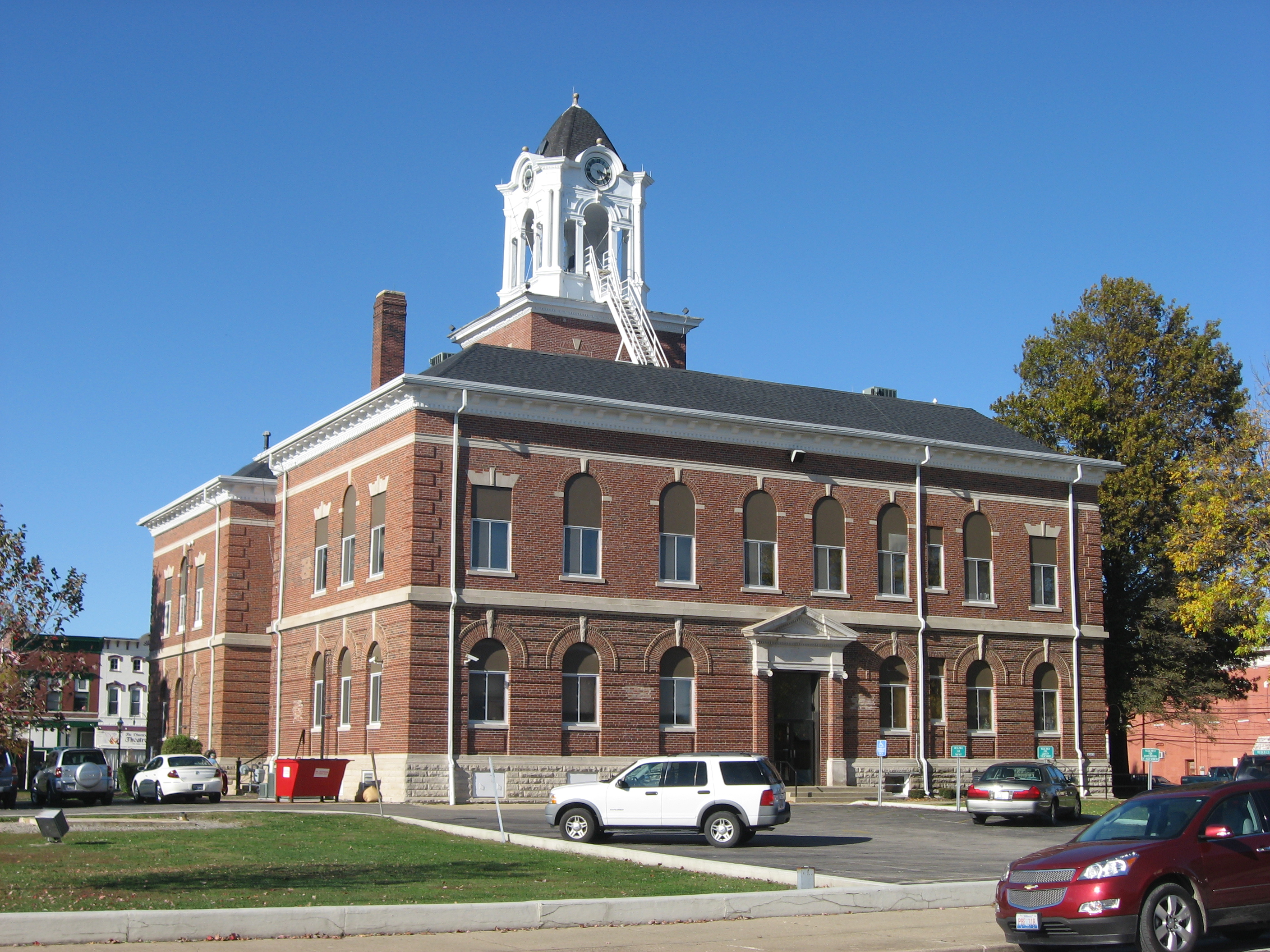 Southern and western sides of the Clark County Courthouse, located on Courthouse Square in Marshall, Illinois, United States. It is part of the Marshall Business Historic District, a historic district that is listed on the National Register of Historic Places.